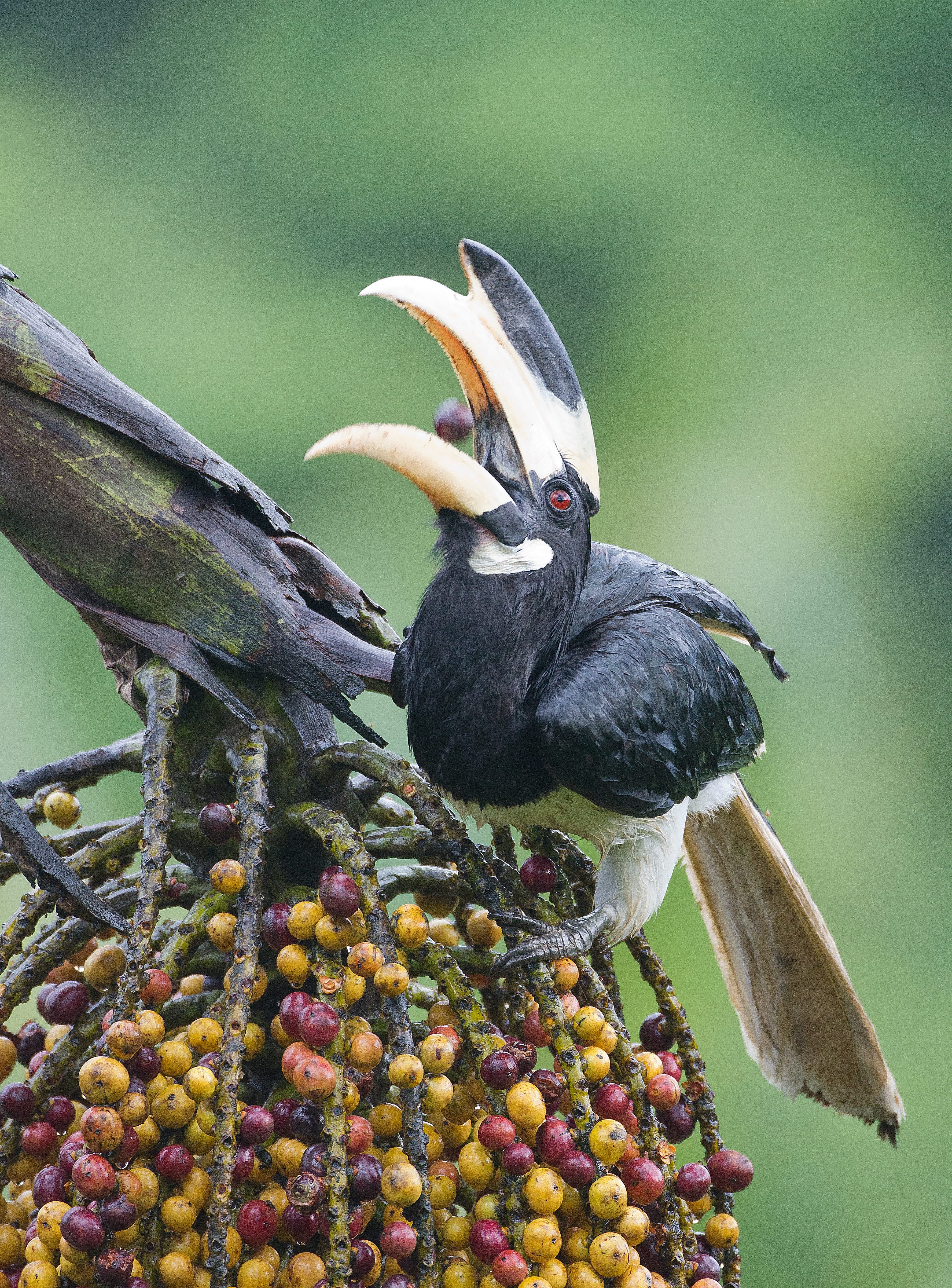 The typical toss and gulp feeding behaviour of the bird is truly mesmerizing.